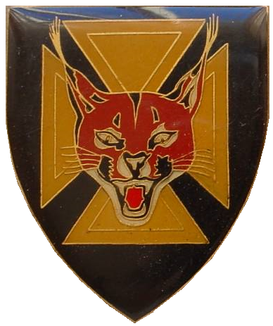 SADF 7 SAI emblem